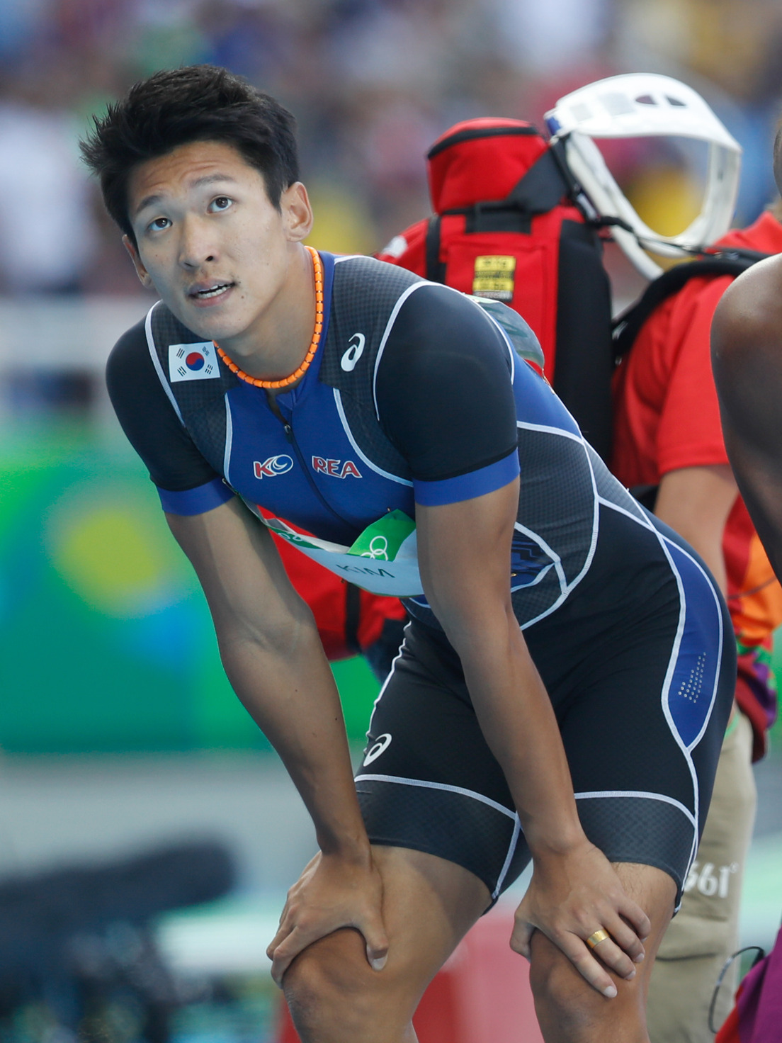 Men's 100 m sprint heats, Rio Olympics